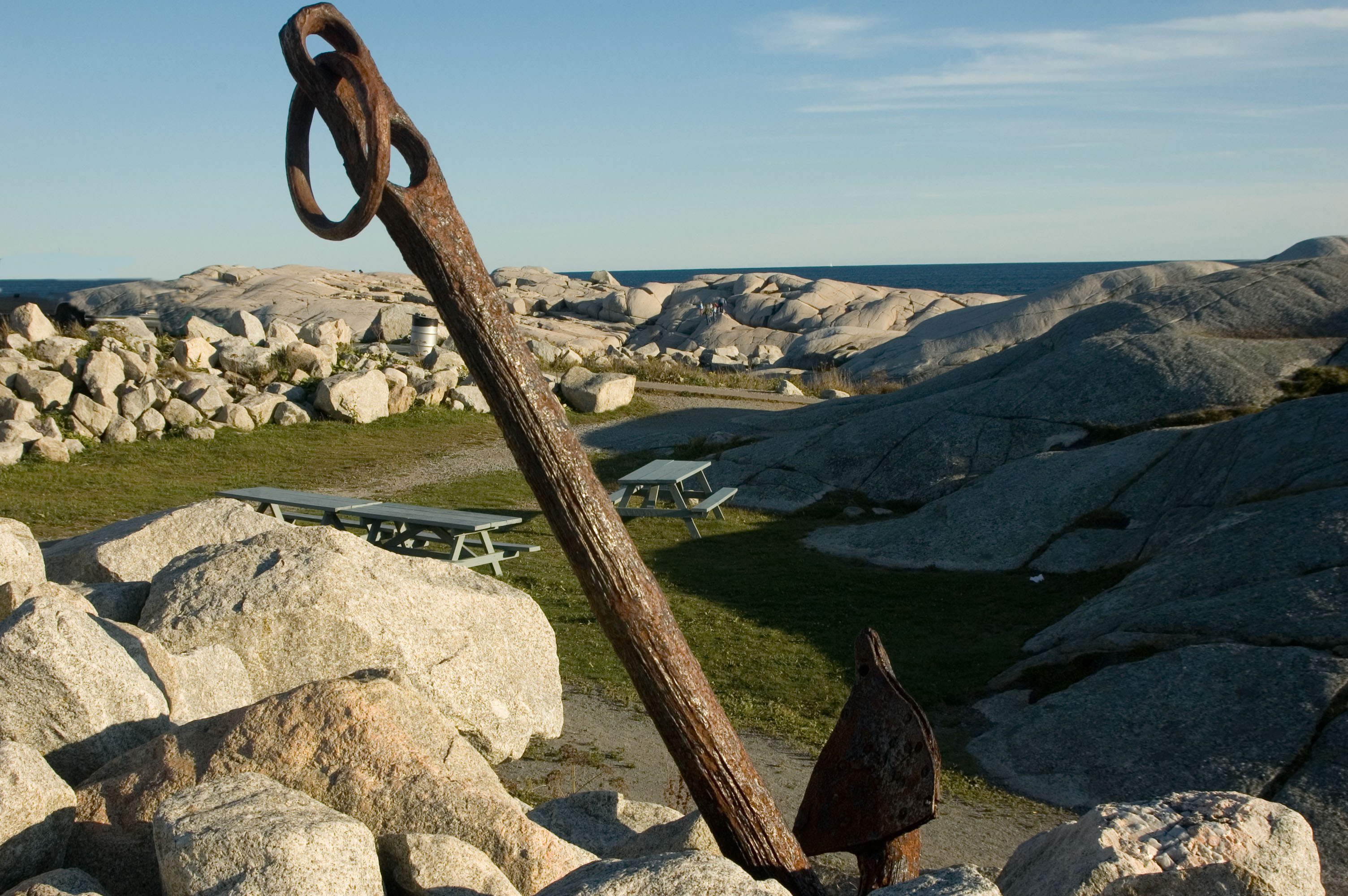 Peggy's Cove, Nova Scotia